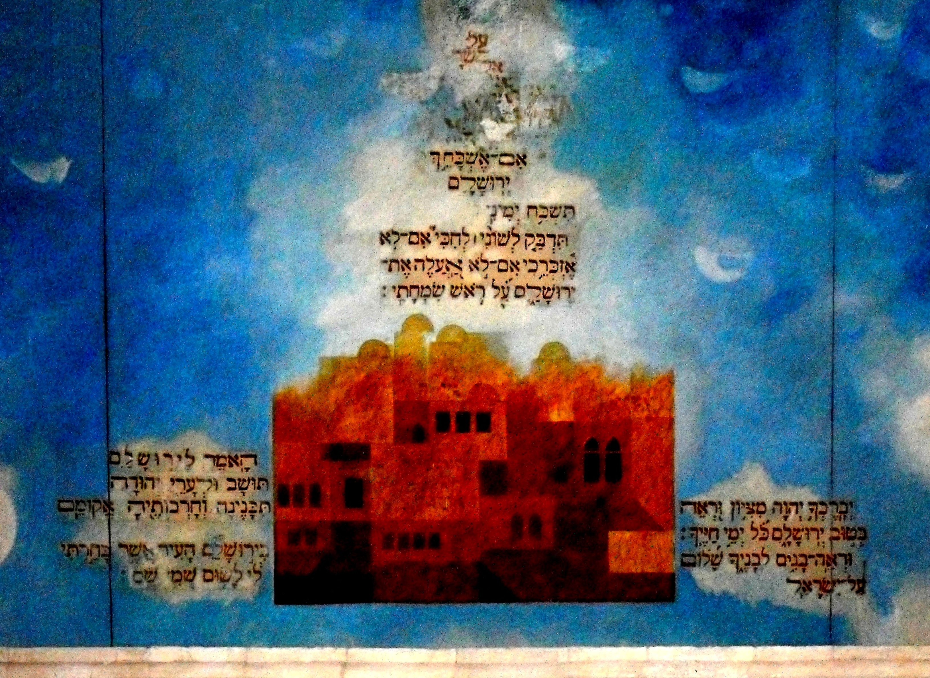 Old Jerusalem Yochanan ben Zakai Synagogue Painting with verses of Psalms 137:5-6 and 128:5-6, Isaiah 44:26 and 1 Kings 11:36 Retouched version with distinctly transformated perspective, intrapolation of upper left corner and deletion of different distracting small white reflections(?)